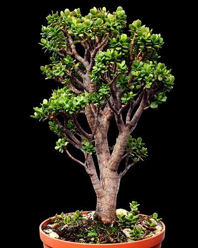 Crassula ovata